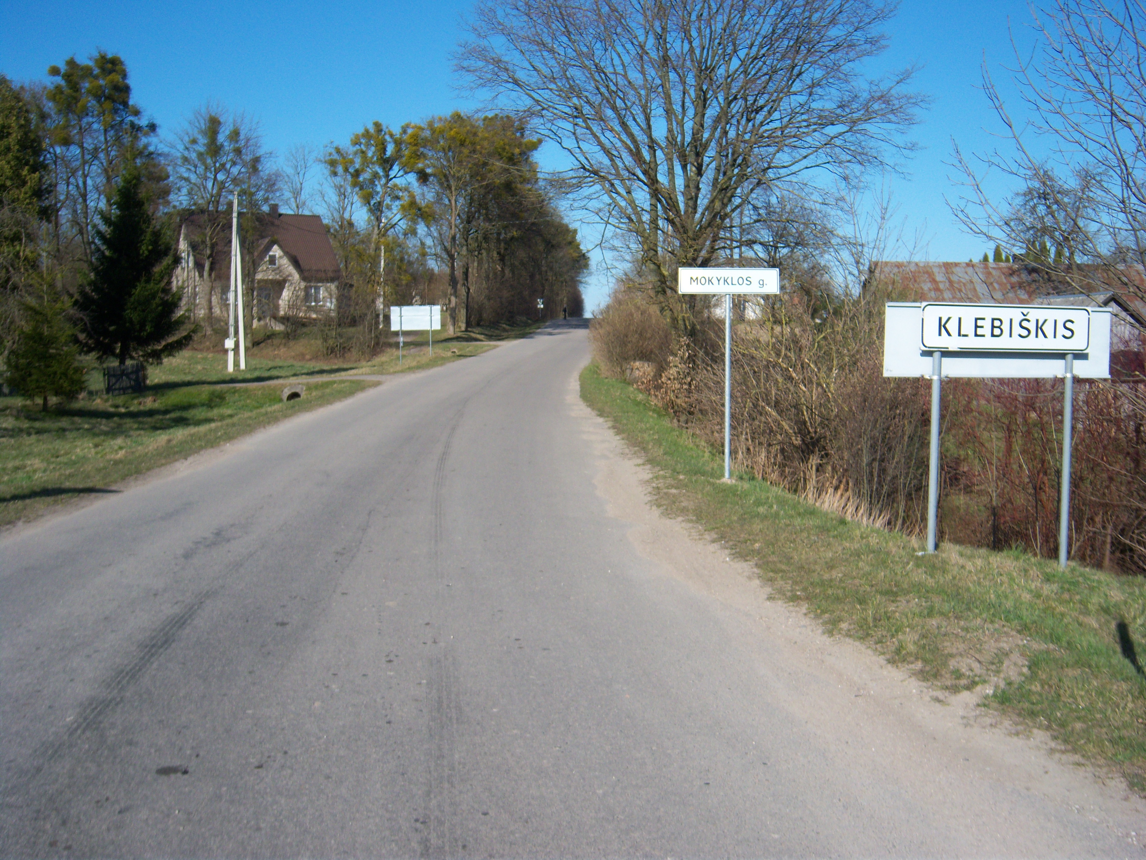 Klebiškis, Prienai district, Lithuania